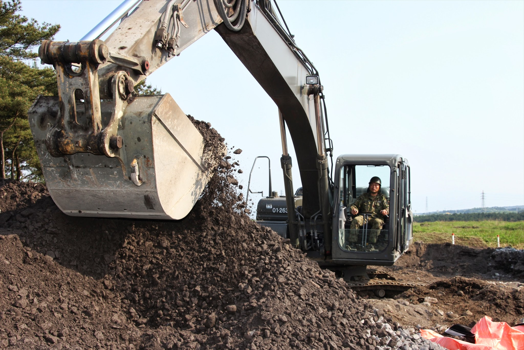 Title 25.05.12~21 １ＥＢ・平成２５年度春季北・東富士演習場定期整備(25.5.23受信・阿久津２曹)25.5.14 Ｄ－ＢＯＸを作成・設置する第５施設群隊員.JPG Album 教育訓練等 東富士演習場春季定期整備（第５施設群・高田）